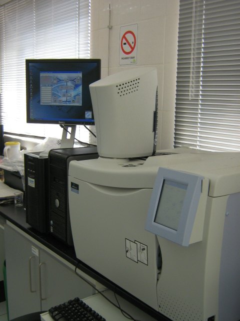 ICP OES Machine